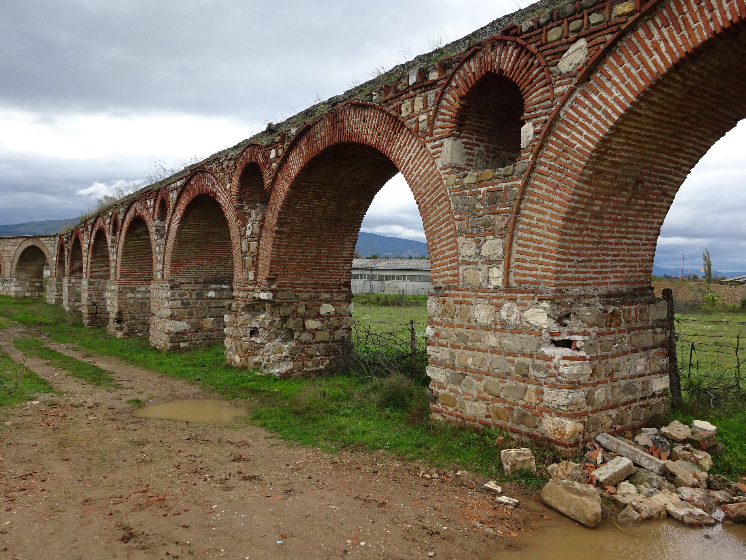 Aqueduct, Macedonia Ова е фотографија на споменик на културата во Македонија со типски код: XThis is a a photo of a cultural monument in North Macedonia with type id: X